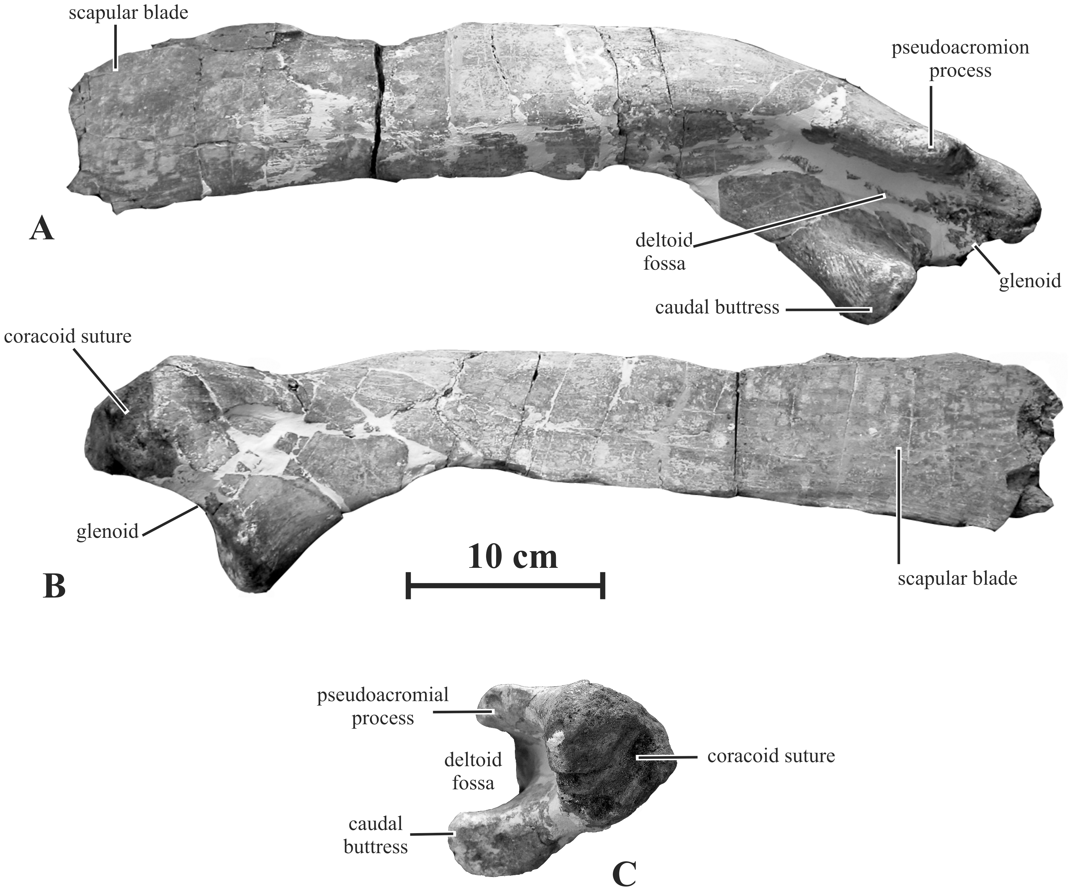 Right scapula (AENM 2/906) of Kundurosaurus nagornyi gen. et sp. nov., in lateral (A), medial (B), and ventral (C) views.